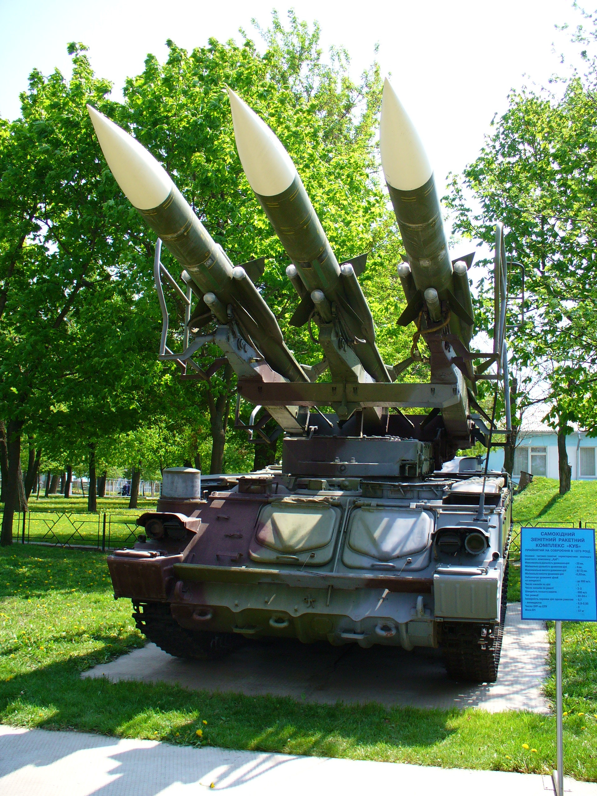 The 2K12 Kub mobile surface-to-air missile system. NATO reporting name SA-6 Gainful. Ukrainian Air Force Museum in Vinnitsa.